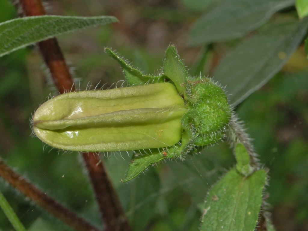 Campanula medium - Genova, Italy